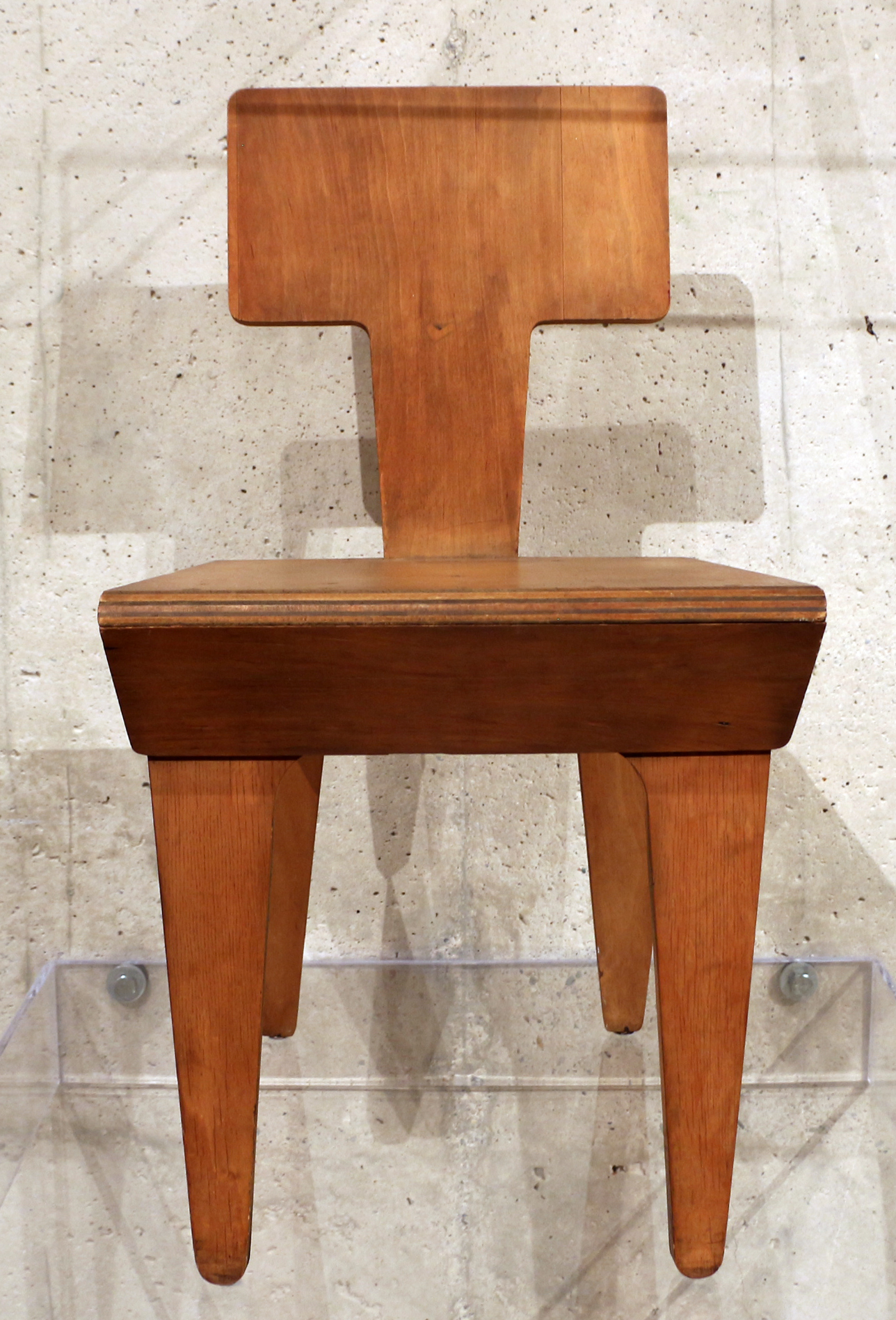 Furniture in the Milwaukee Art Museum